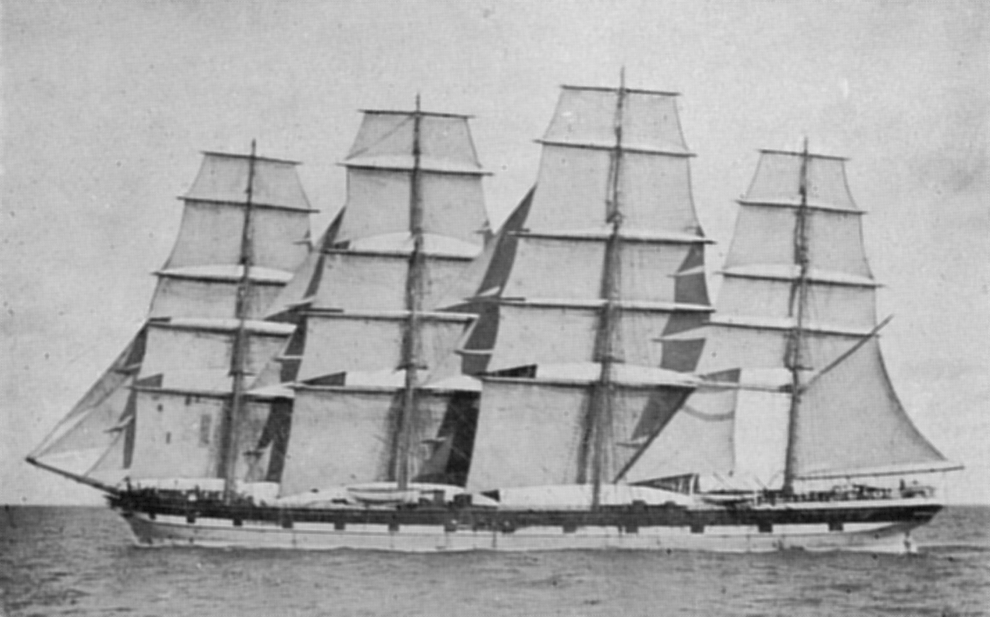 photograph of a four masted sailing ship taken from the deck of 'Cutty Sark' by her captain Richard Woodget.